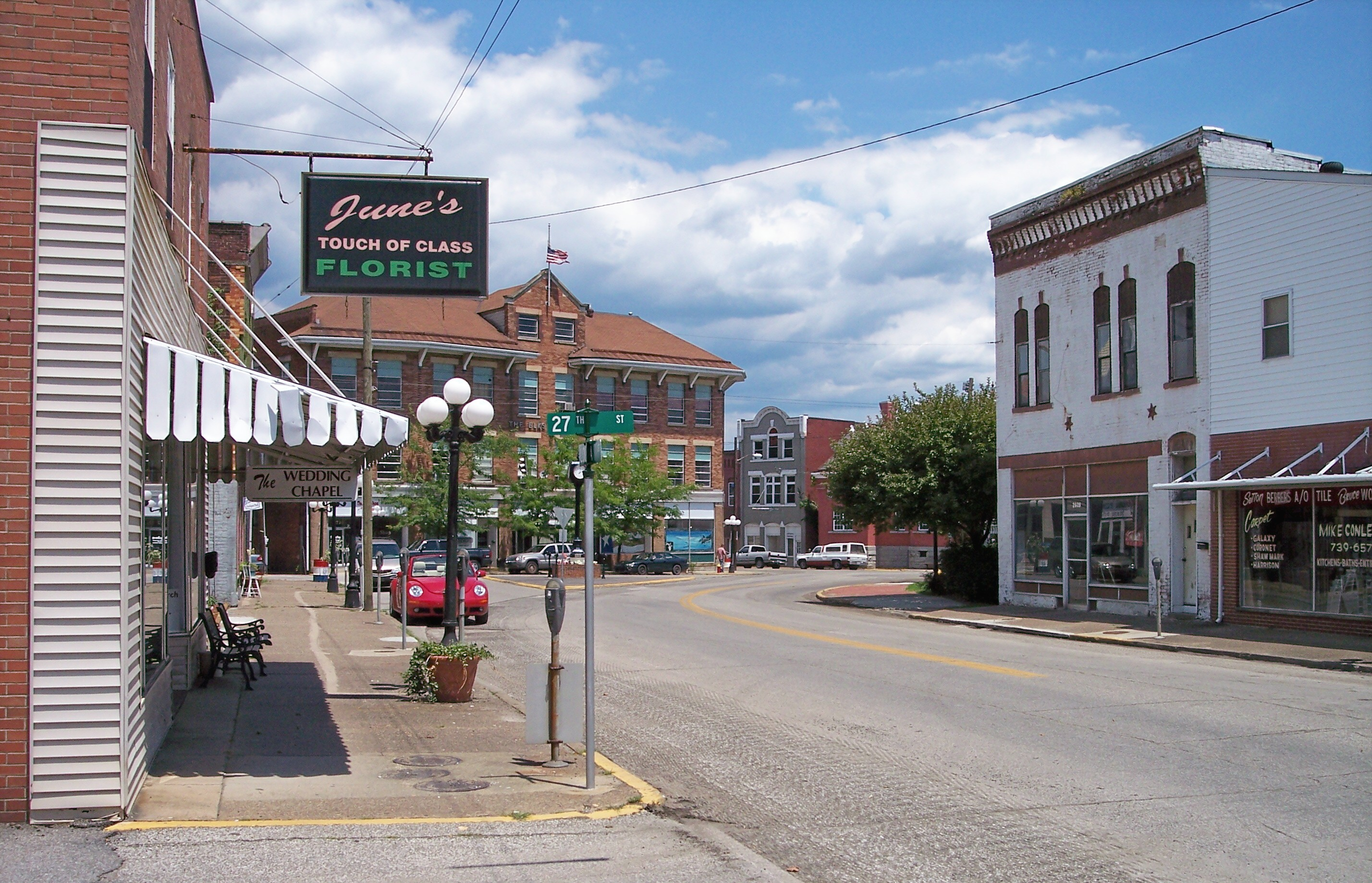 Louisa Street as viewed from 27th Street in downtown Catlettsburg, Kentucky.